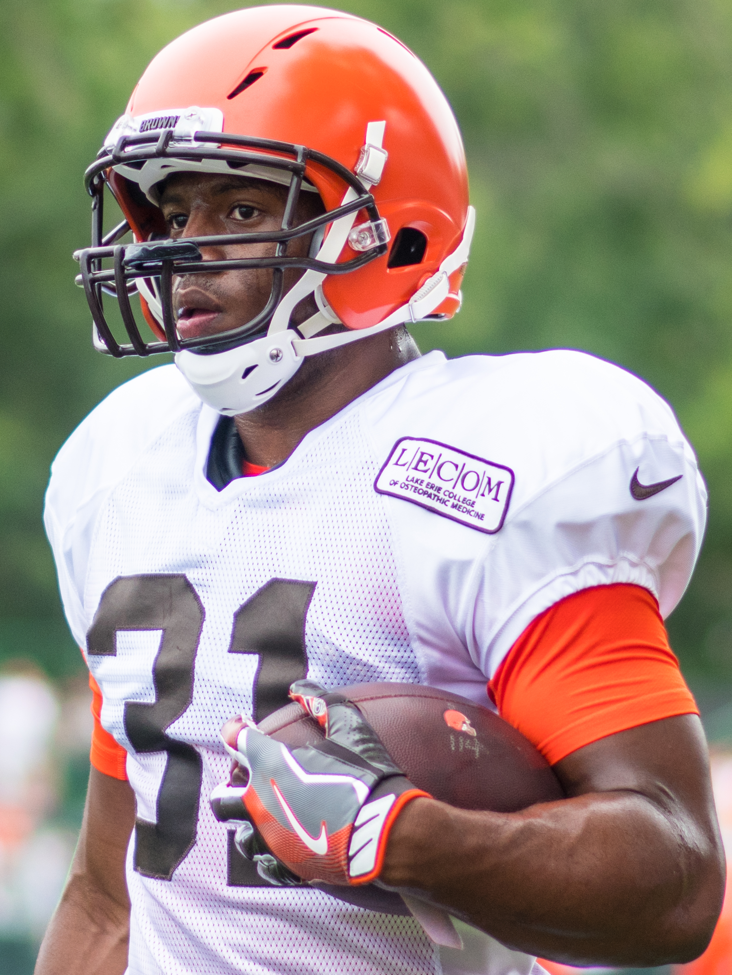 Nick Chubb